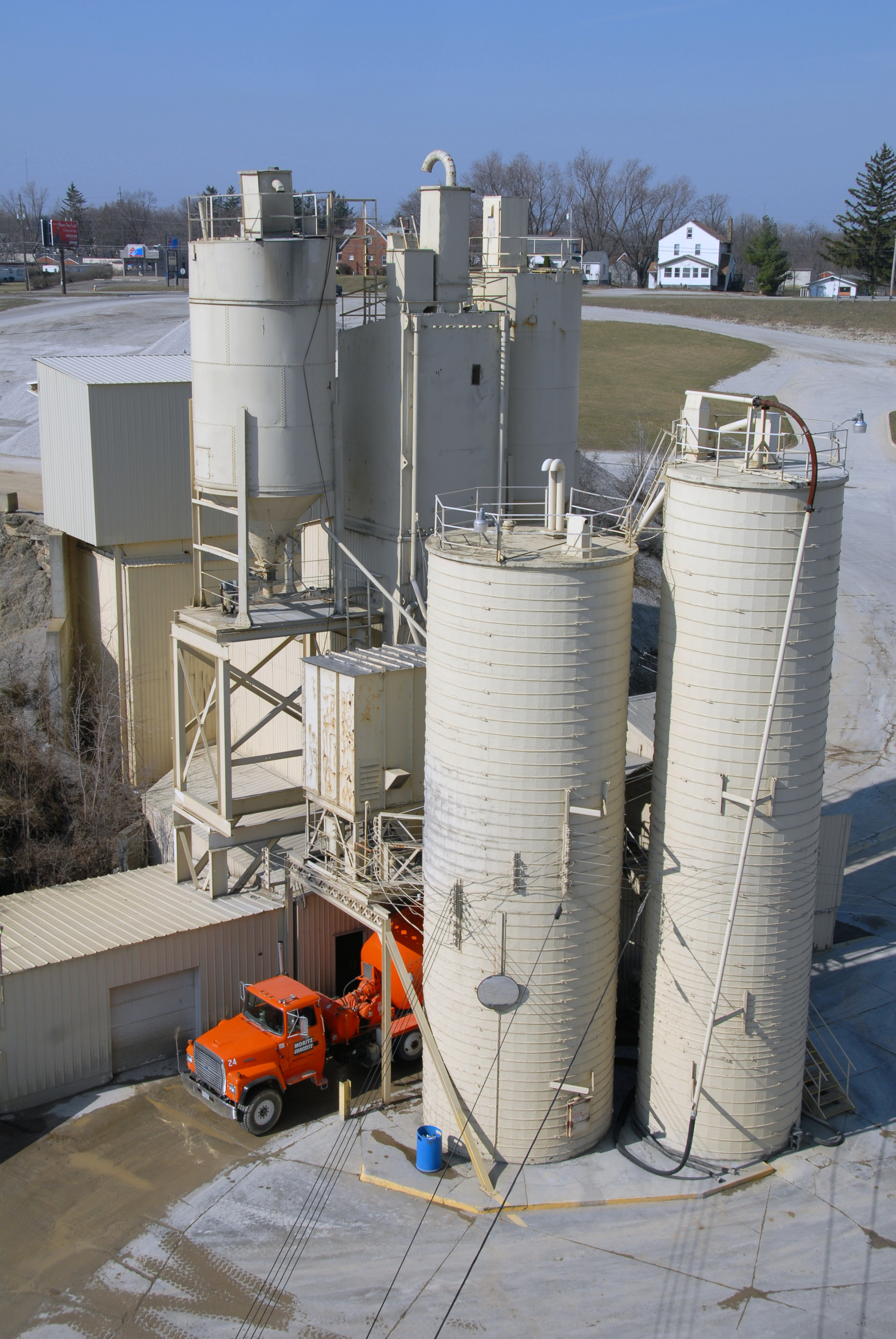 A concrete plant in Mansfield, Ohio is providing recycled concrete materials being used for the 179th Airlift Wing’s “Green Project” renovation in Mansfield, Ohio.